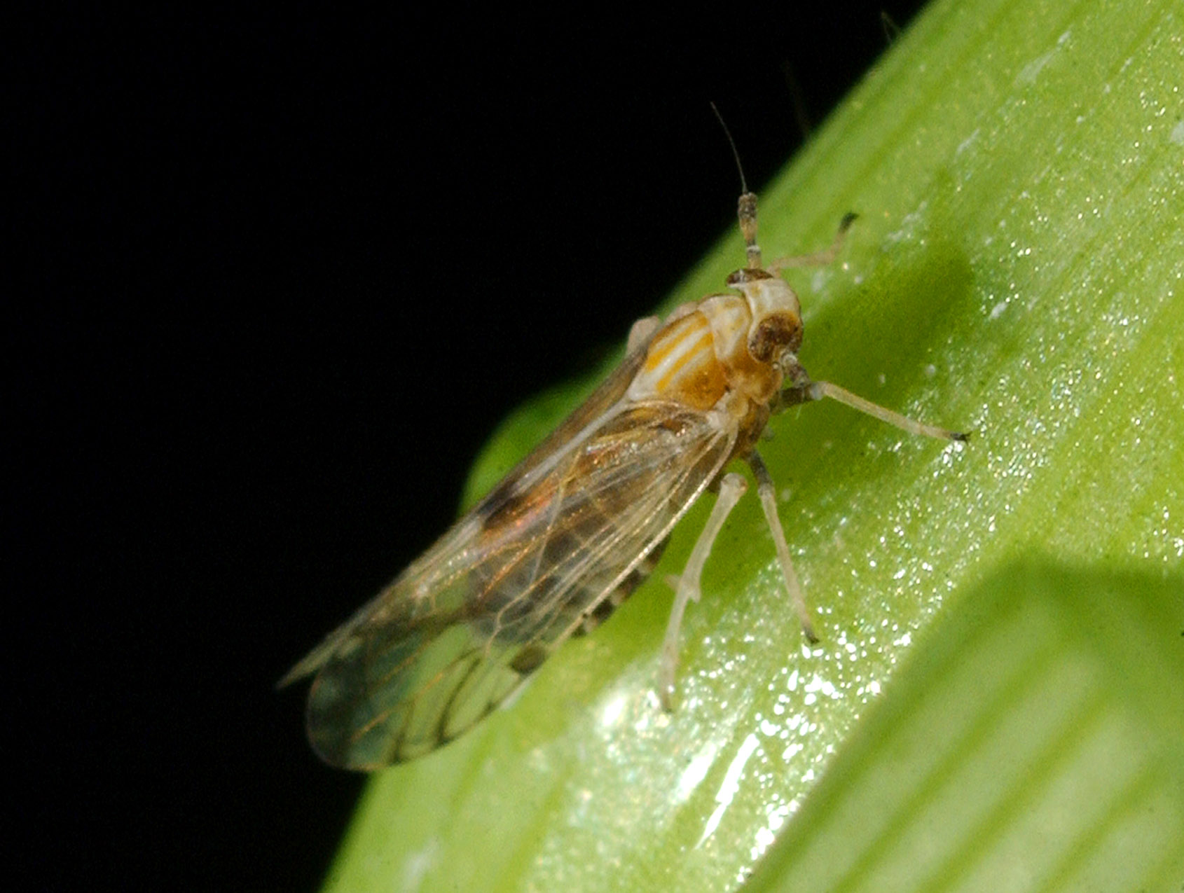 Corn planthopper. Peregrinus maidis (Rhynchota: Delphacidae)